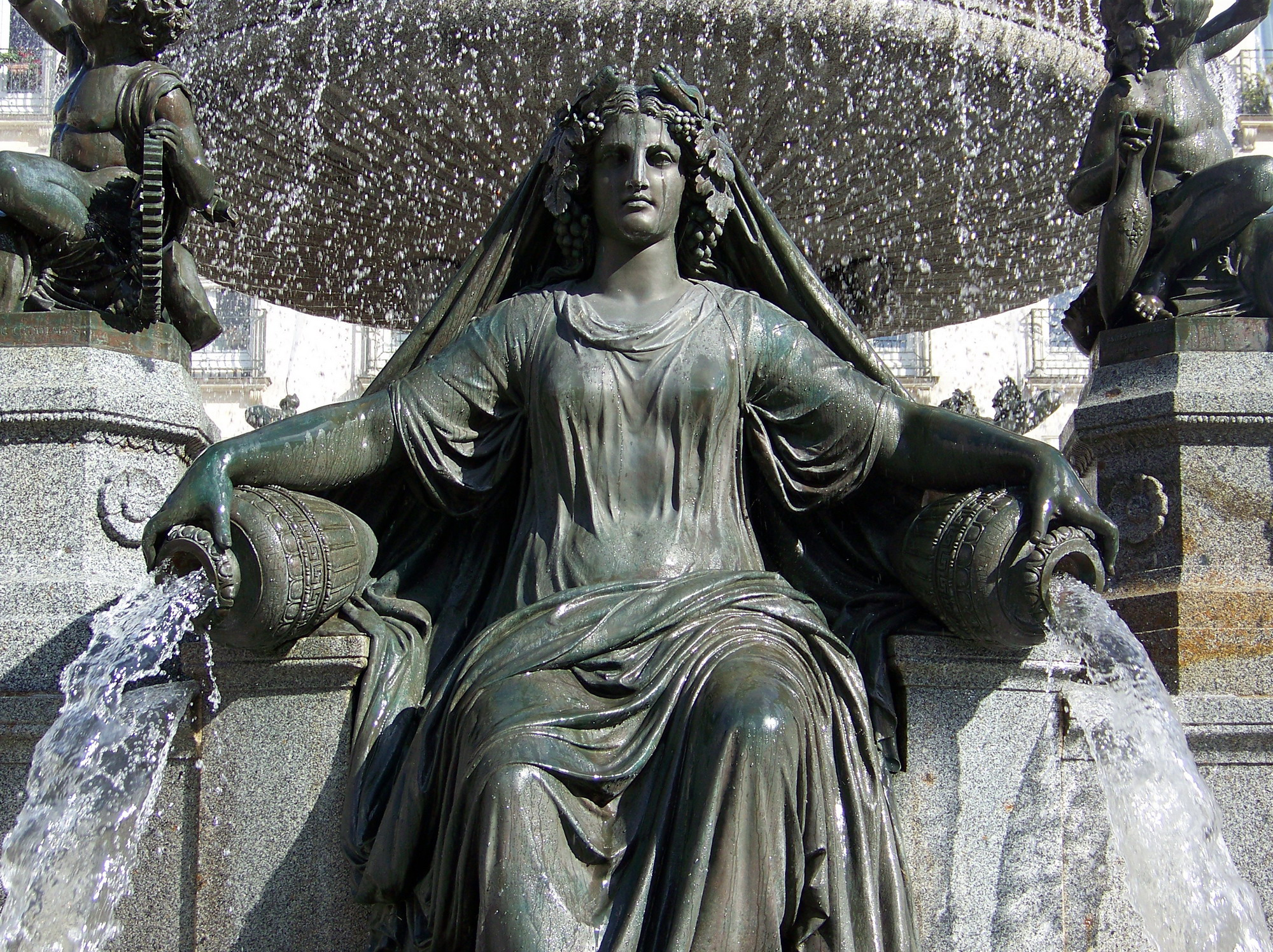 Allegorical statue of the Loire river on the fountain of the Place Royale in Nantes. Architect of the place: Mathurin Crucy (1788). Fountain by Daniel Ducommun de Locle, Guillaume Grootaërs and Simon Voruz (1865).